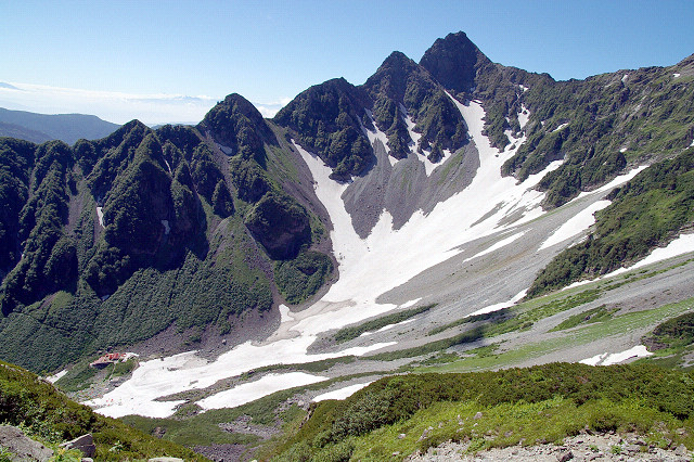 Karasawa Cirque and Mount Maehotaka (Mae-Hotaka-dake) as seen from Mount Kitahotaka (Kita-Hotaka-dake) in the Hida Mountains, Japan